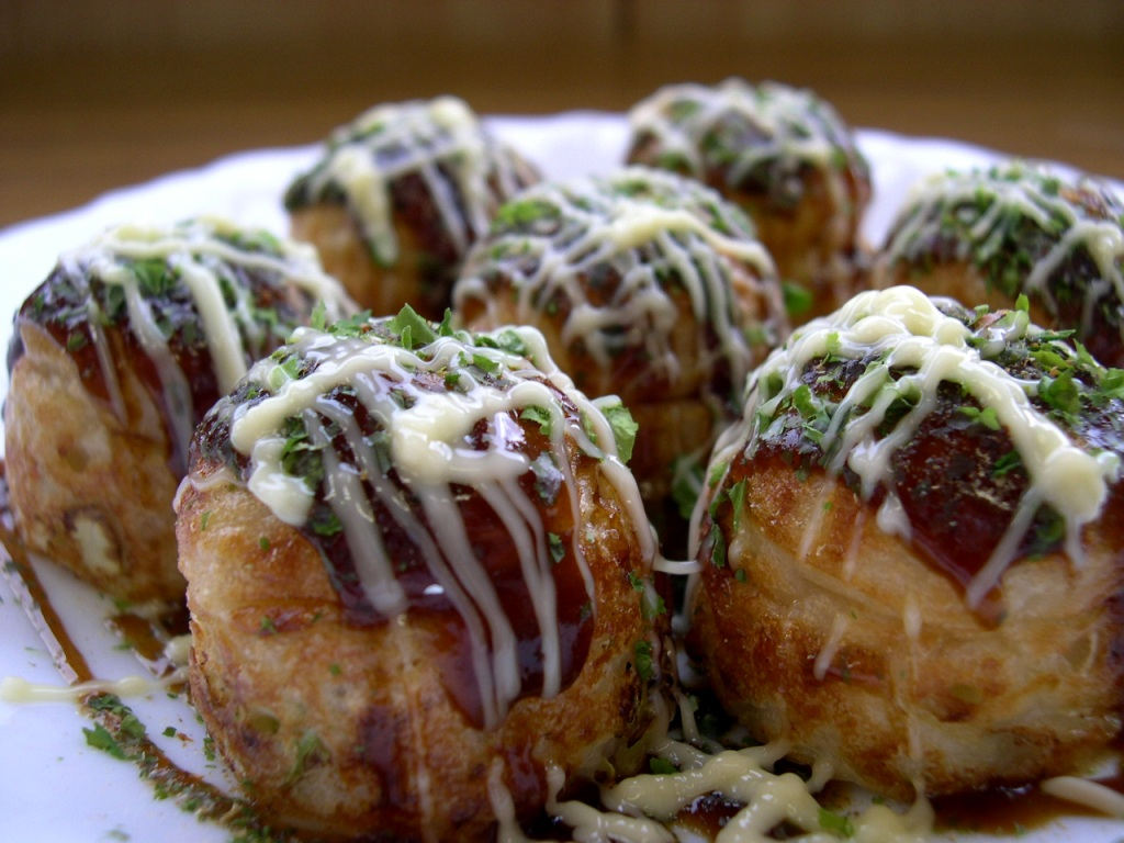 Octopus ball. Template:Ja=